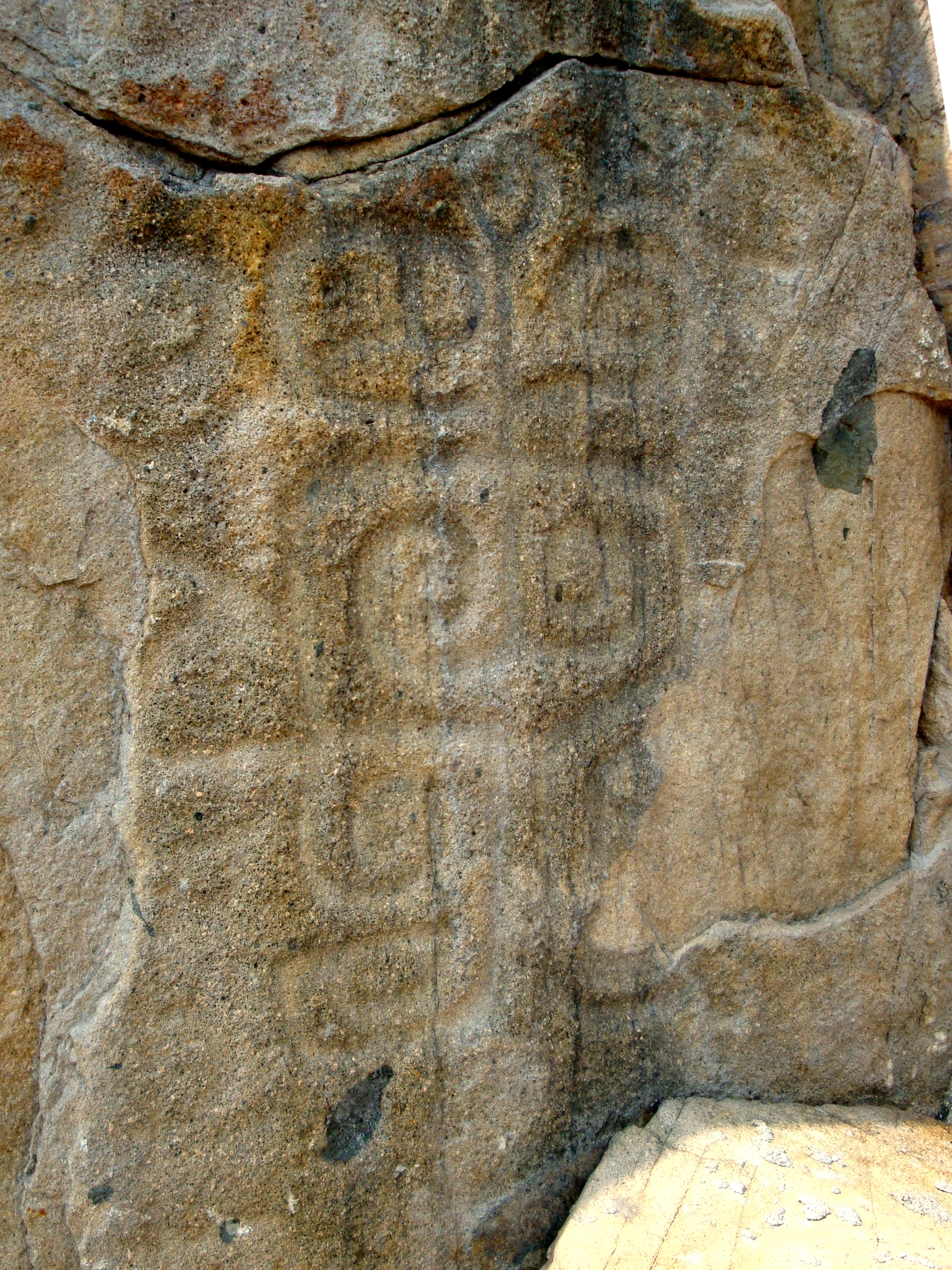 This is one of the many wood carvings found at Po Toi Island in Hong Kong.